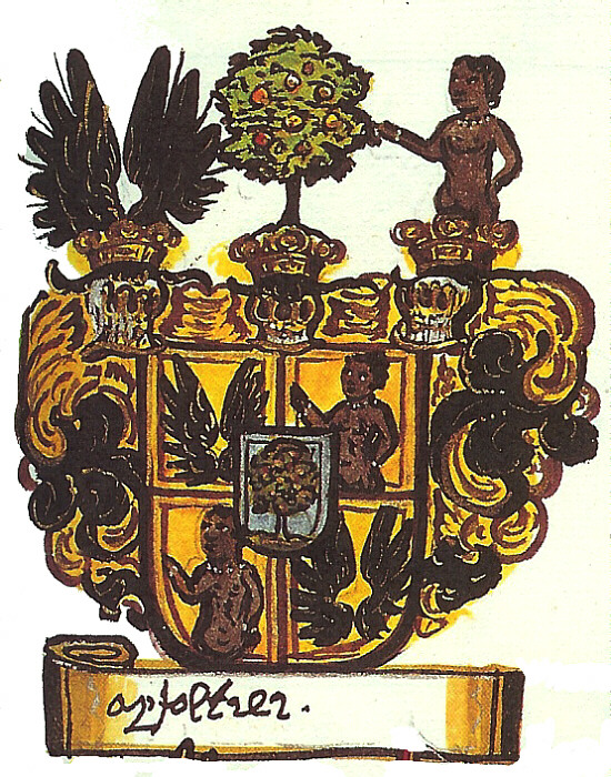 The coat of arms of the noble family Apfaltrer.